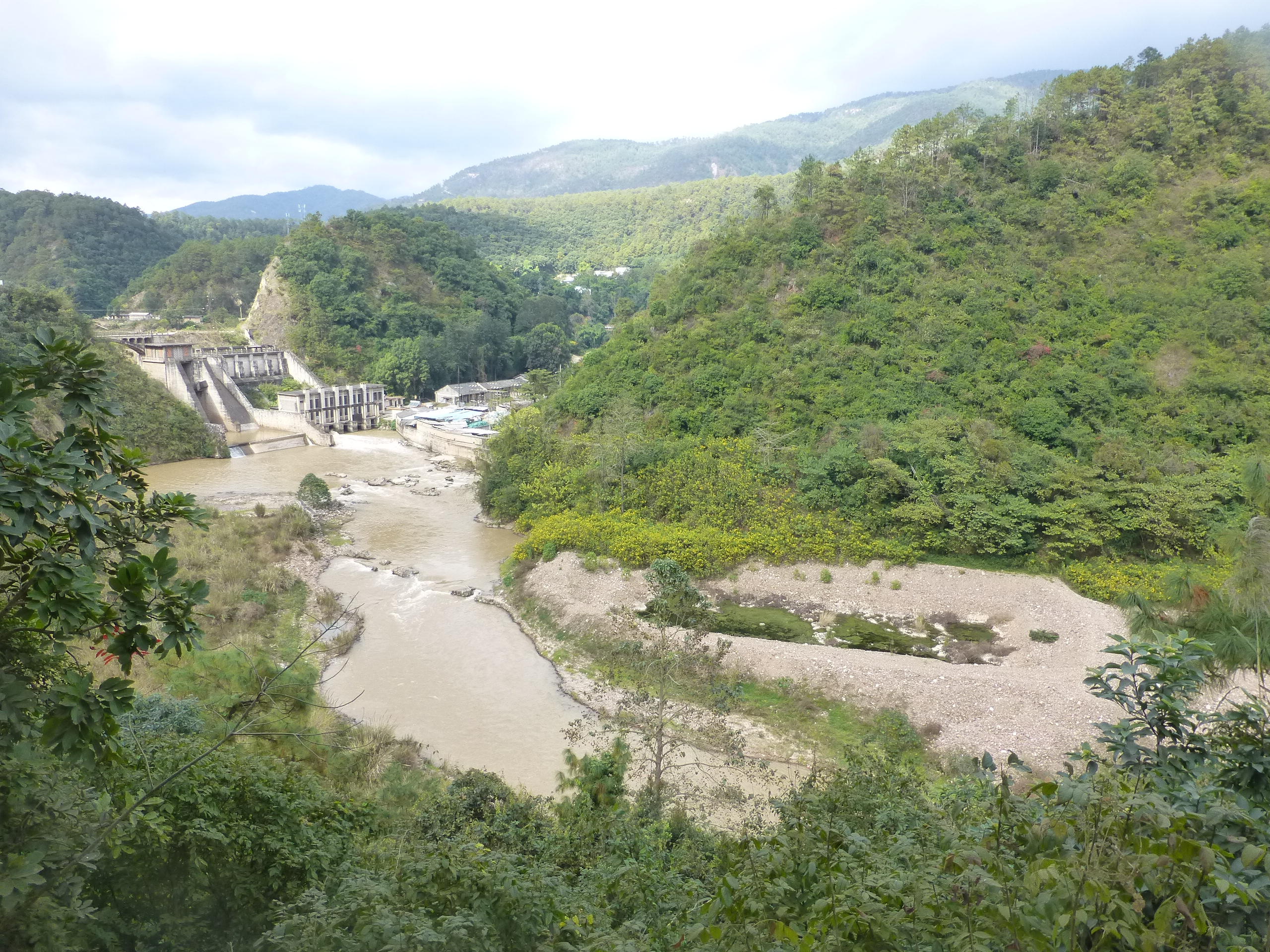 The Mabozi Dam on the Qu River (Qujiang) in Tonghai County, near its border with Jianhsui County.